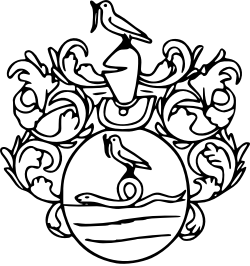 Peder Paus COA (1728) by Hans Krag